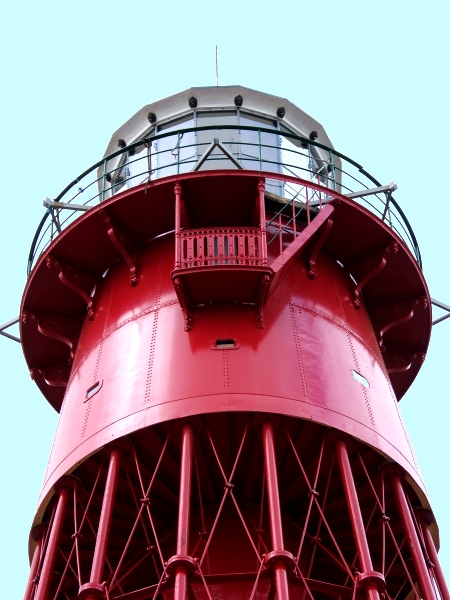 Detail of the Swedish cast iron lighthouse Pater Noster